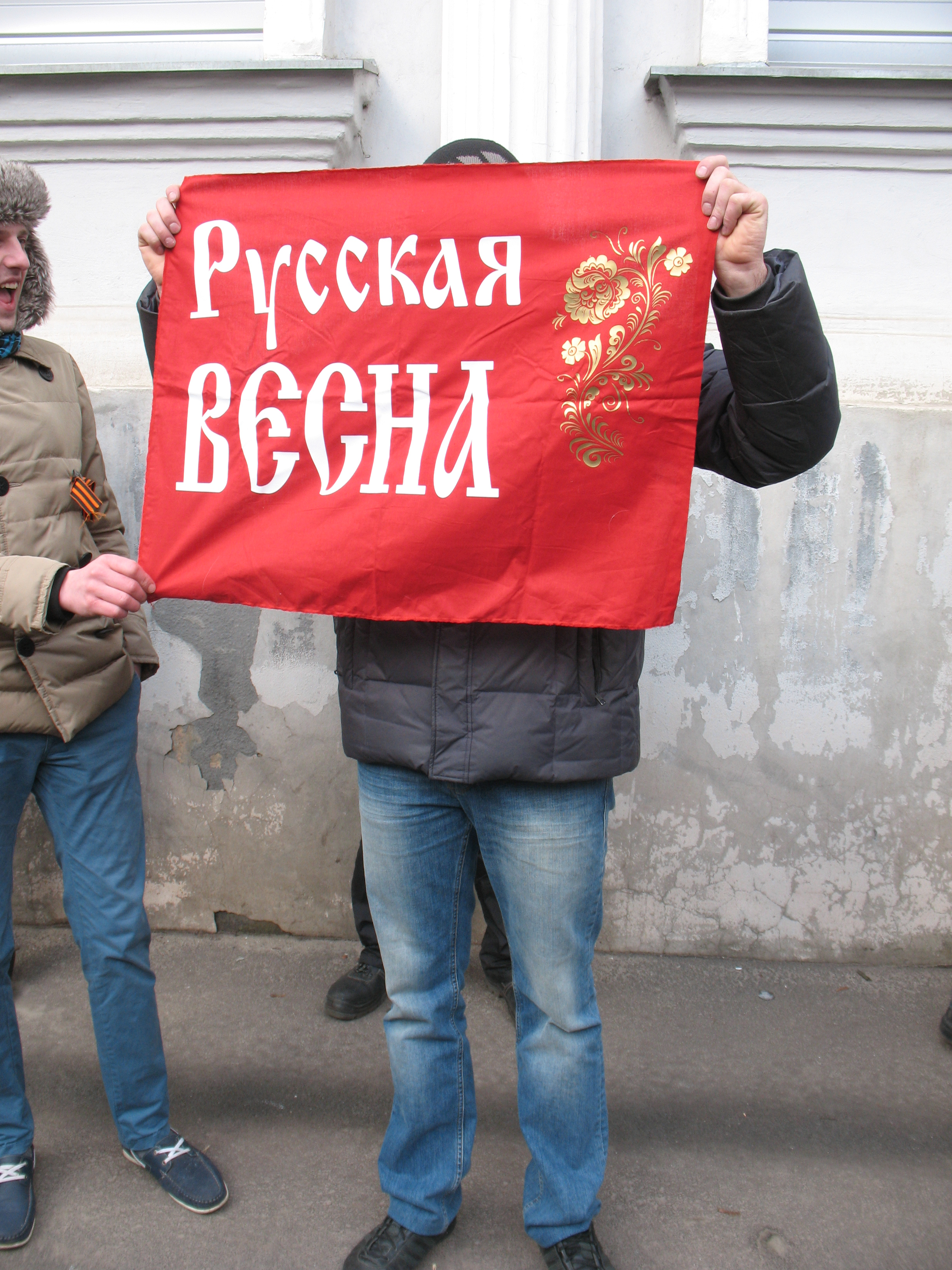 Russian spring in Kharkov City.